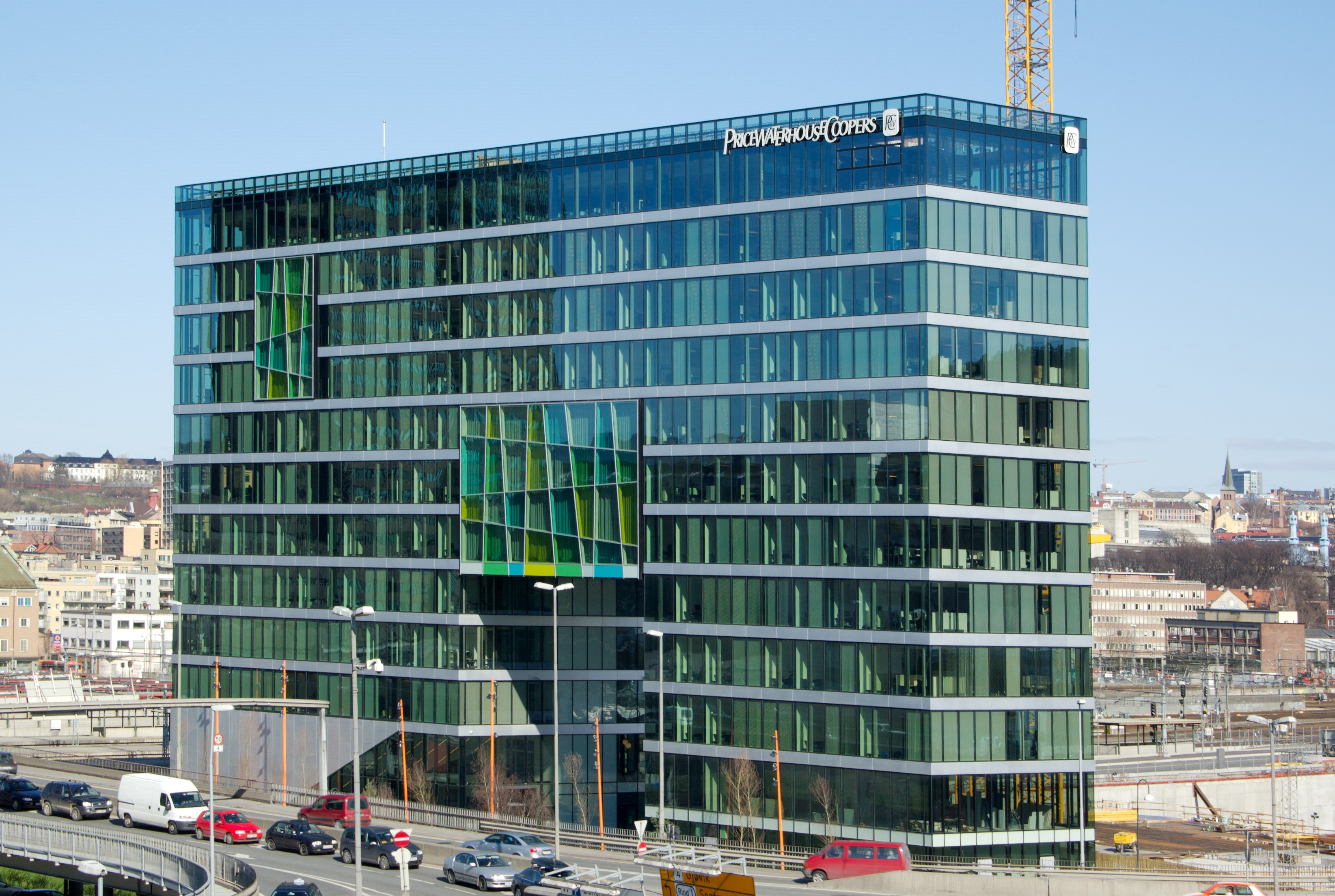 PriceWaterhouseCoopers office building in Bjørvika Oslo, Norway, April 2008 © 2005, 2006, 2007 by Bjørn Erik Pedersen Licensing:[edit]